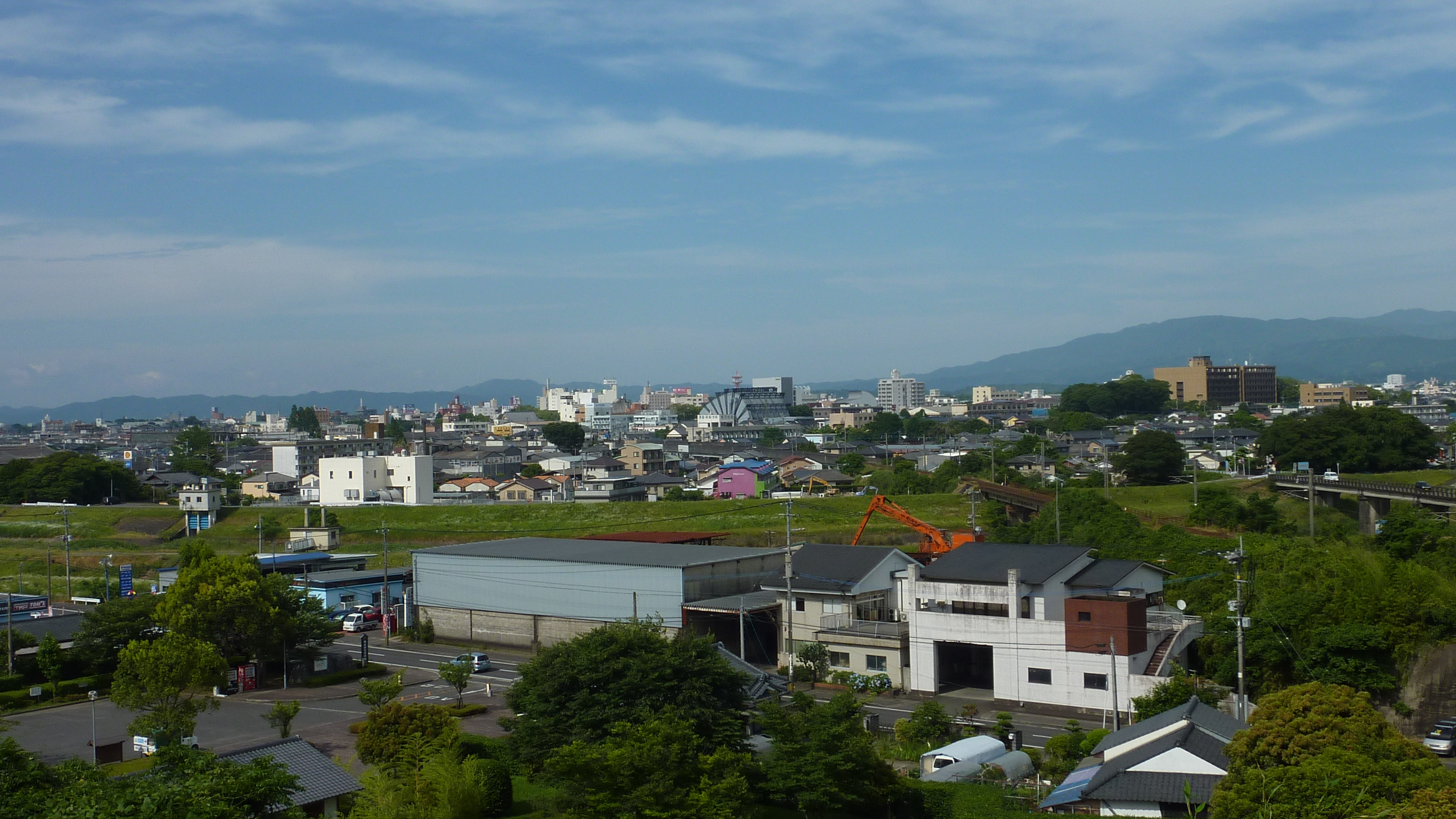 The Central Miyakonojo City from the Ruins of Miyakonojo Castle (Miyazaki Prefecture, Japan)